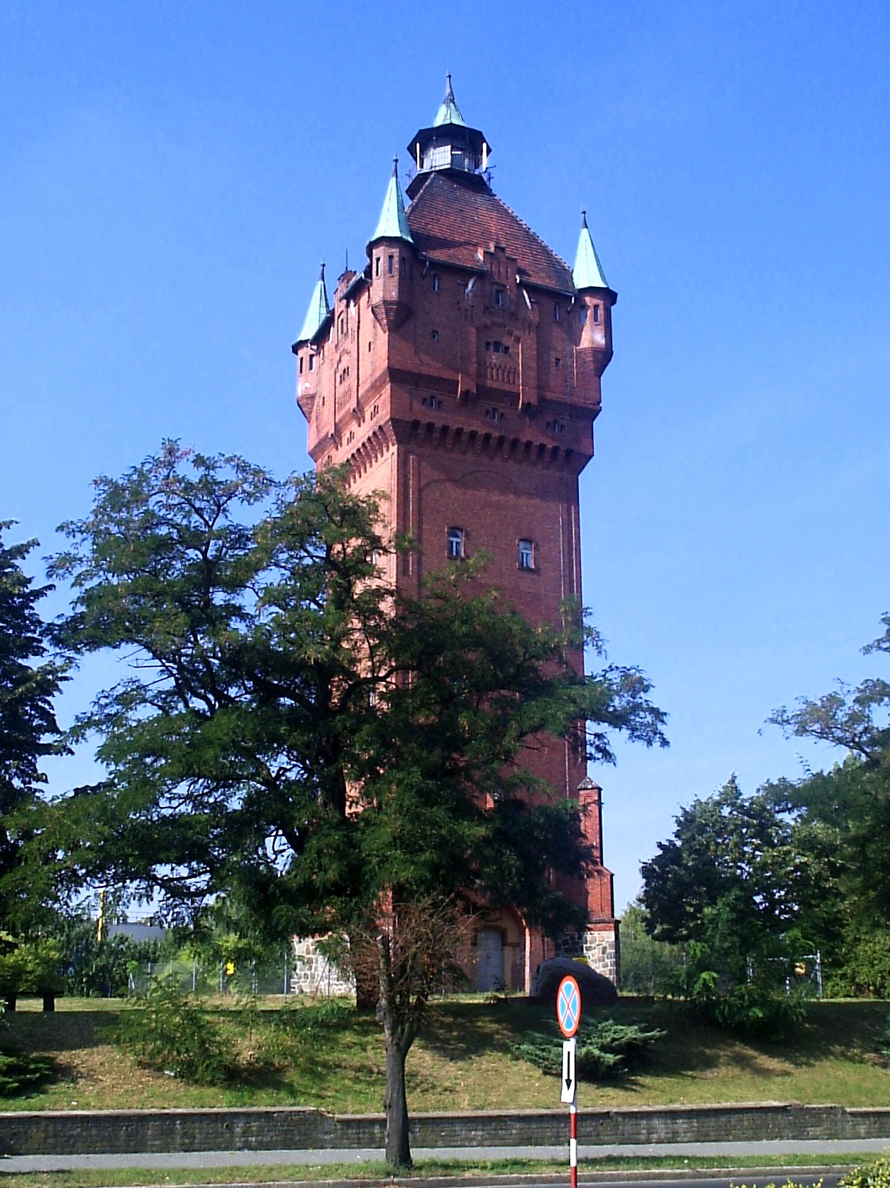 Water tower - Śrem (Poland).